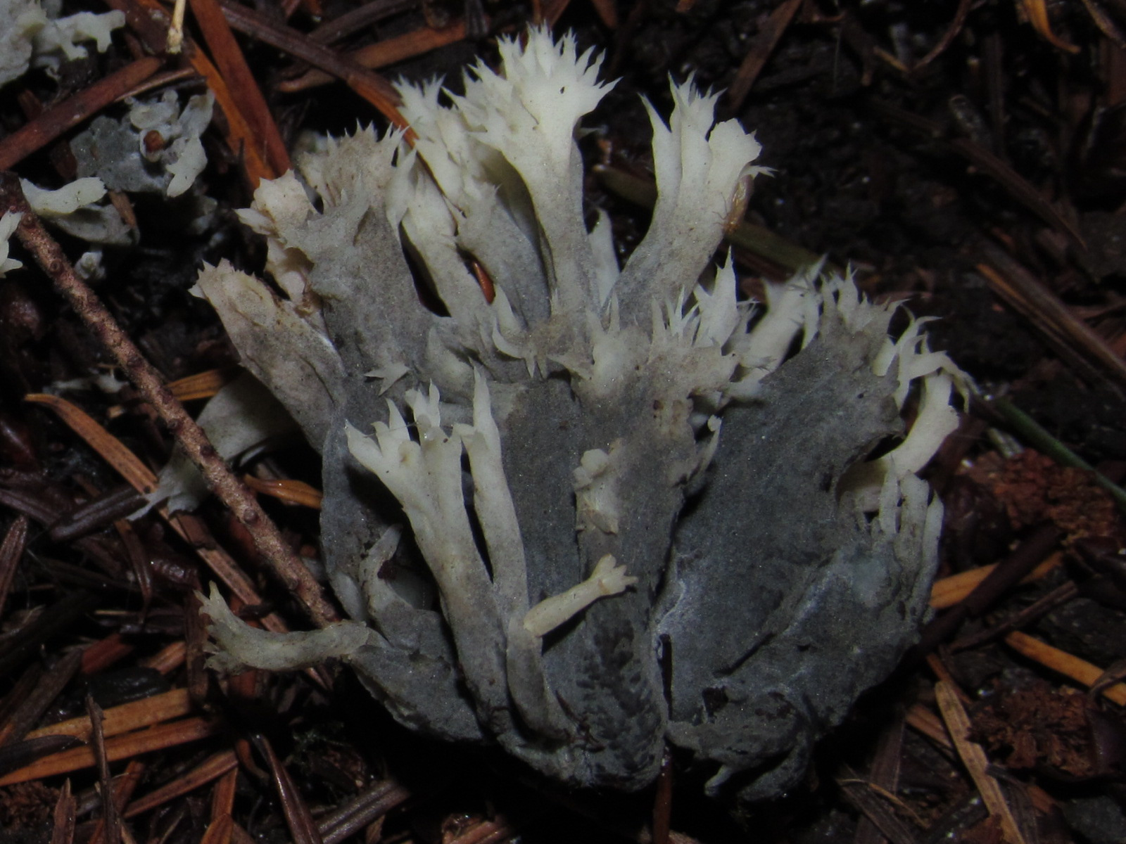 The fungus Helminthosphaeria clavariarum (Desm.) Fuckel; specimen photographed in South Woods Park, Shoreline, Washington, USA.